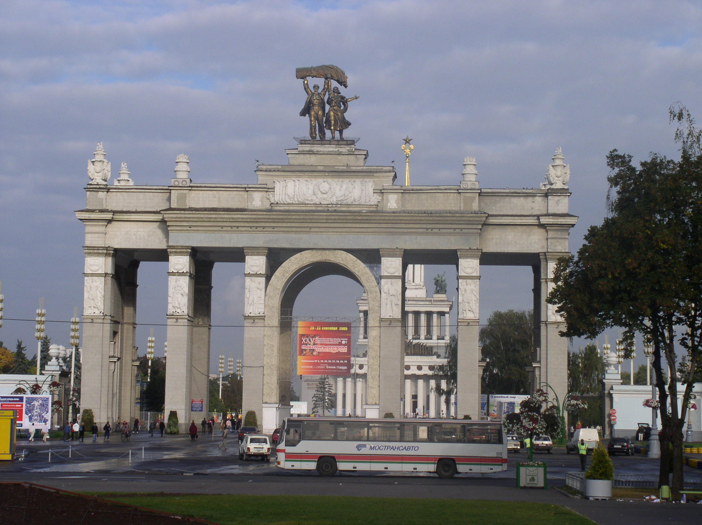 All-Russian Exhibition Center. Moscow, Russia.